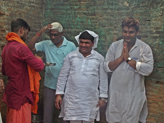 Worship of Lord Shiva at Raja Lone Singh's Castle, Mitauli of Kheri district, India